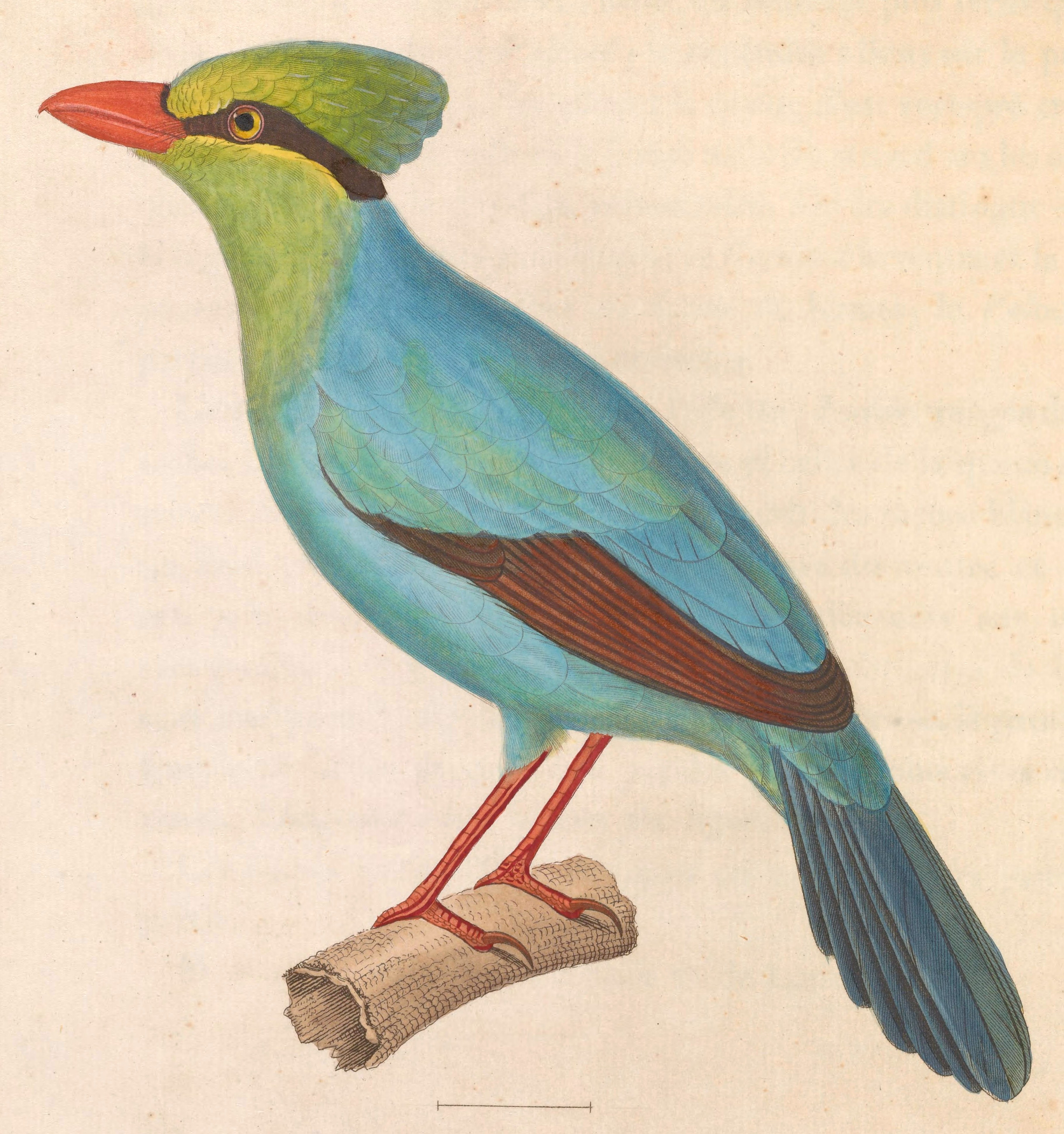 Kitta thalassina = Cissa thalassina (Javan Green Magpie) - adult, apparently drawn from a captive bird, indicated by the blue wash of the originally green plumage.